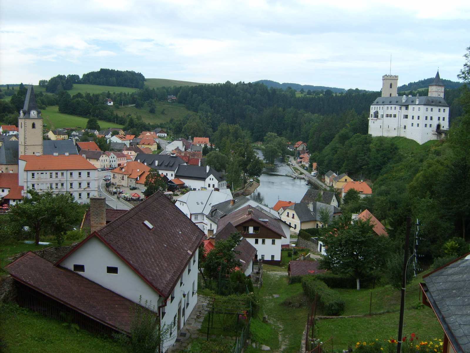 Castle and city of Rožmberk nad Vltavou, Czech r.